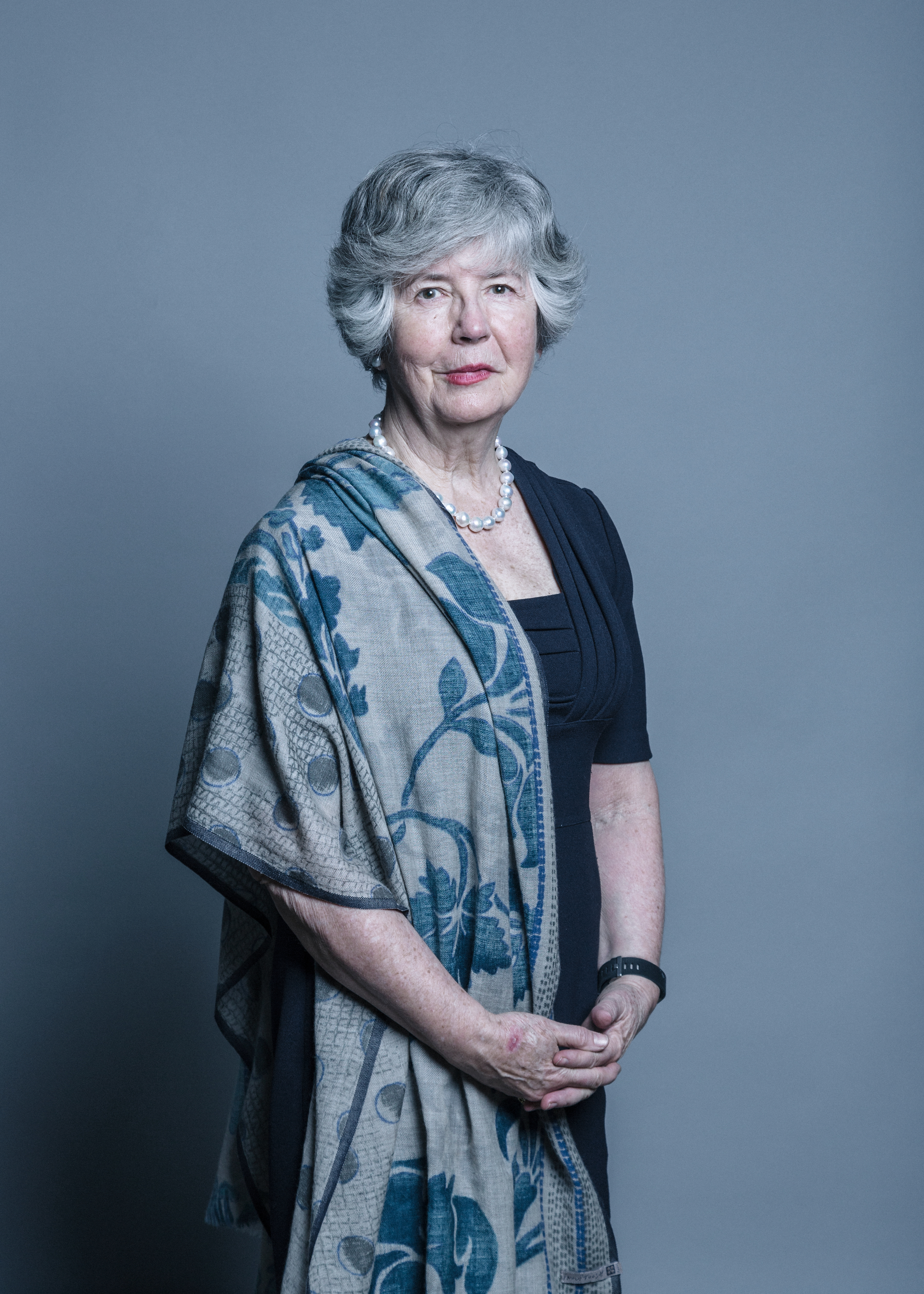 Official portrait of Baroness Hogg